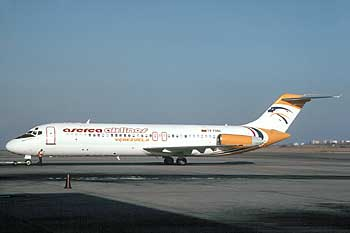 Aserca Airlines' DC-9-31 at Simon Bolivar Iternational Airport in Maiquetia, Venezuela